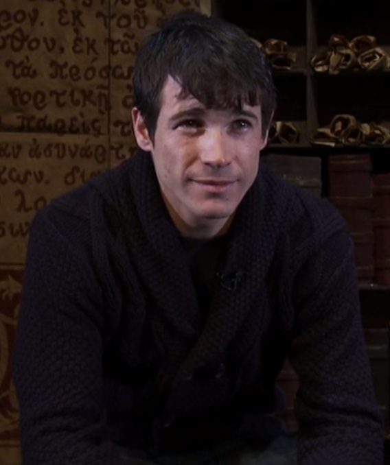 Spanish Acto Juan José Ballesta